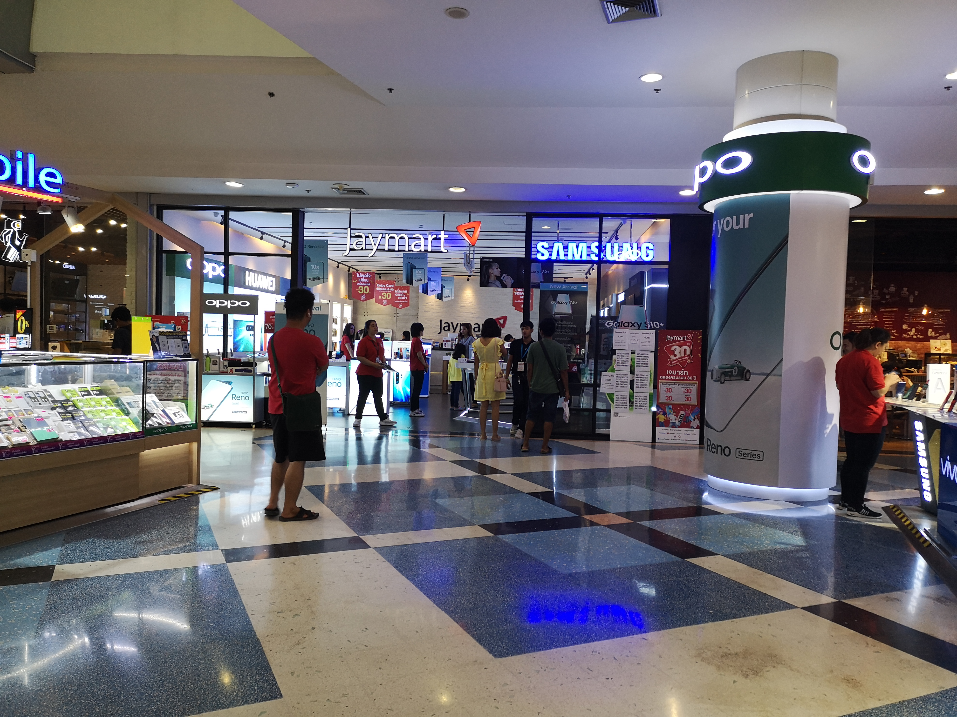 Jaymart at Central Praram 2